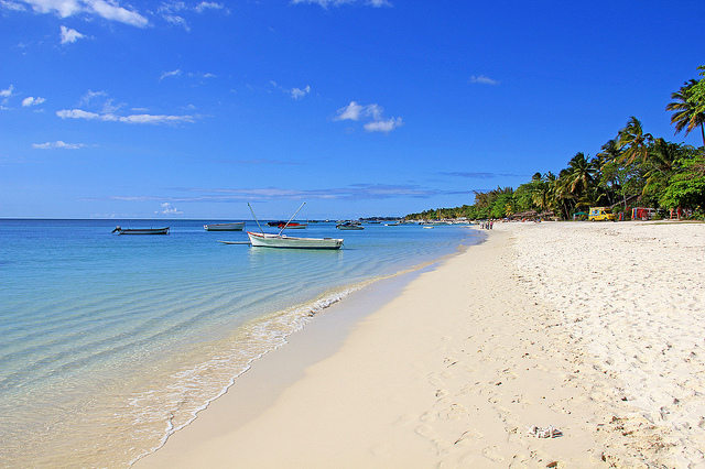 Beach in Mauritius - Trou-aux-Biches